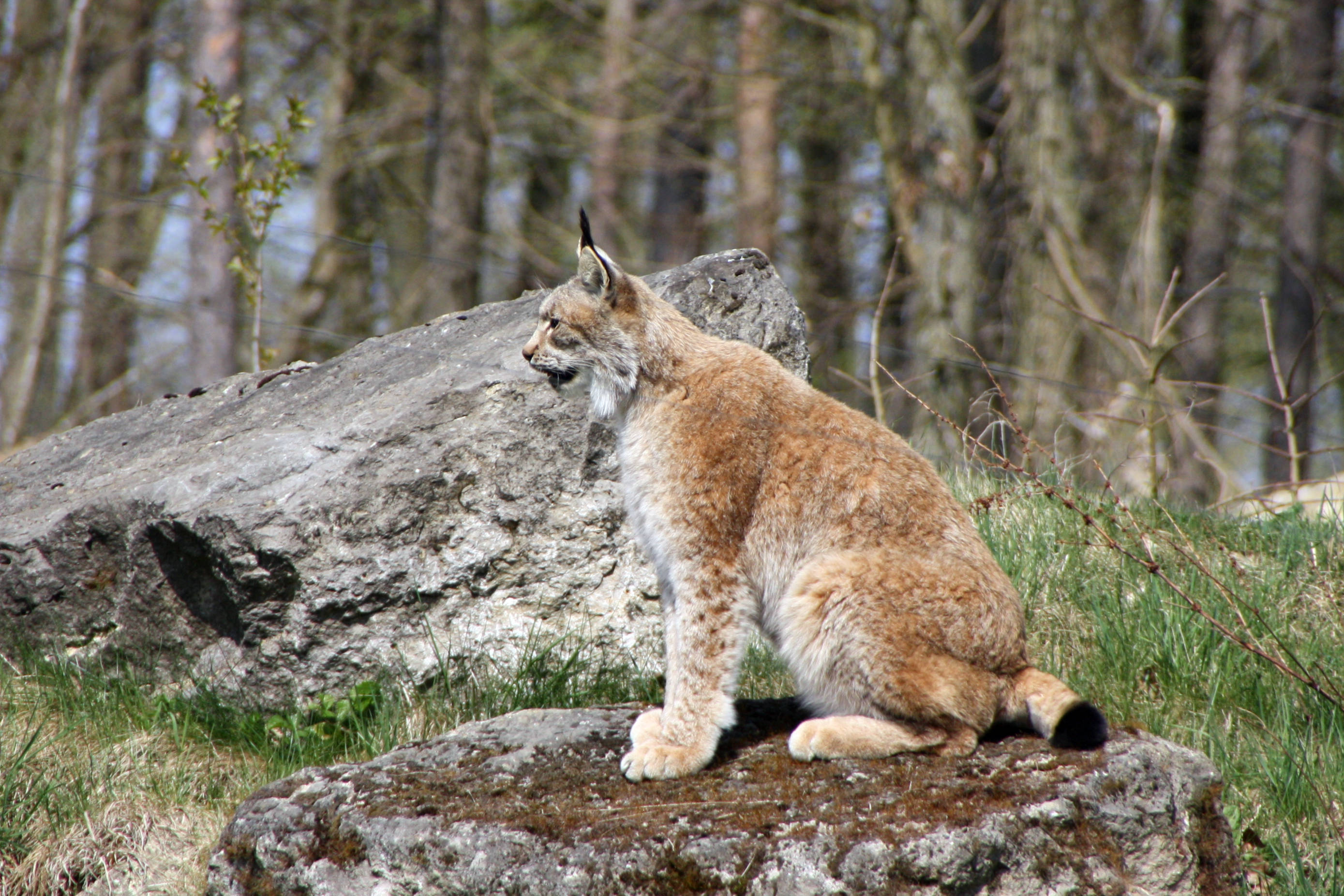 A lynx in the wildlife park in Bad Mergentheim, Germany